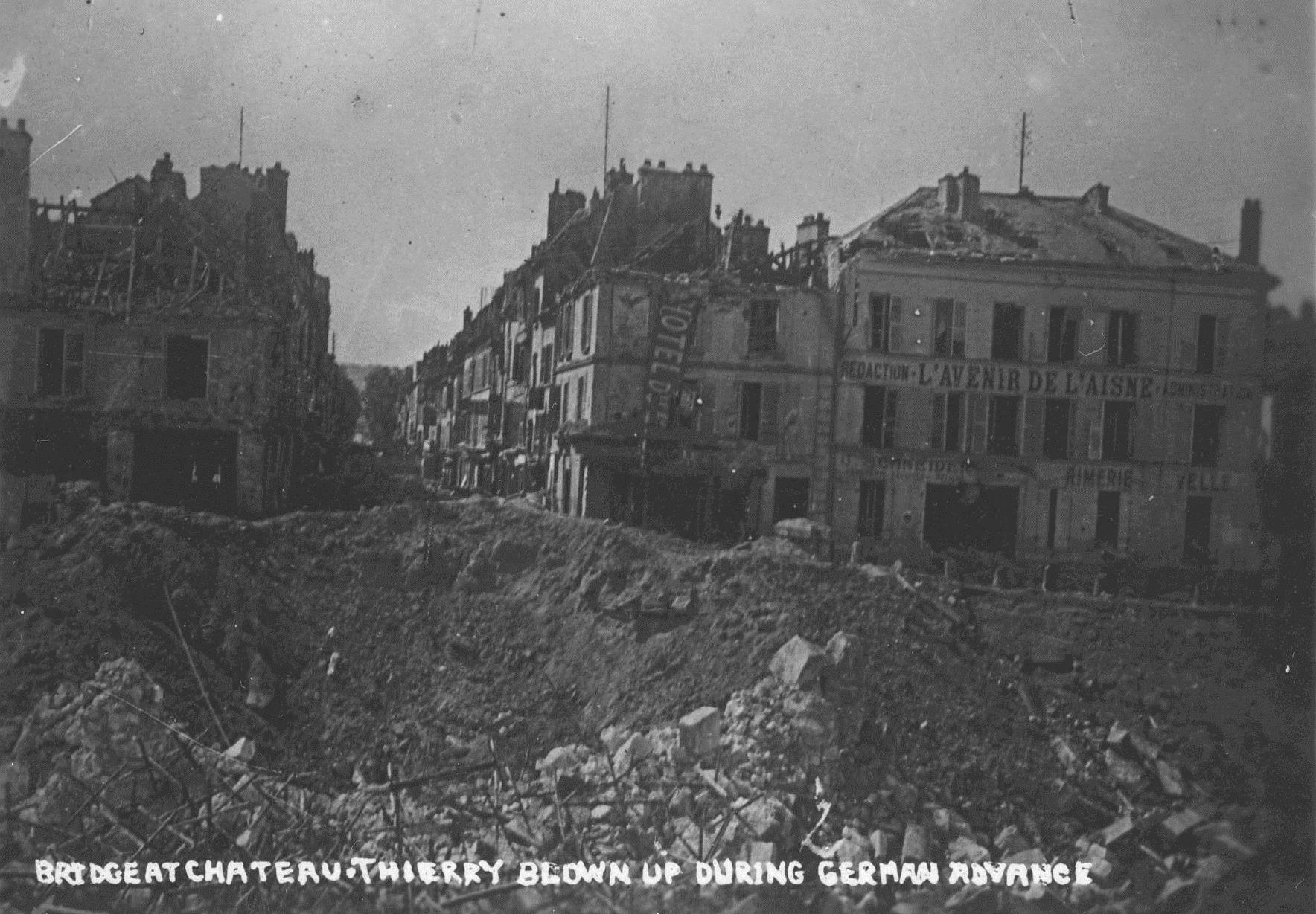 "Bridge at Chateau-Thierry blown up during German advance." From the collection of Littleton Waller, Jr. (COLL/1380), United States Marine Corps Archives & Special Collections OFFICIAL USMC PHOTOGRAPH